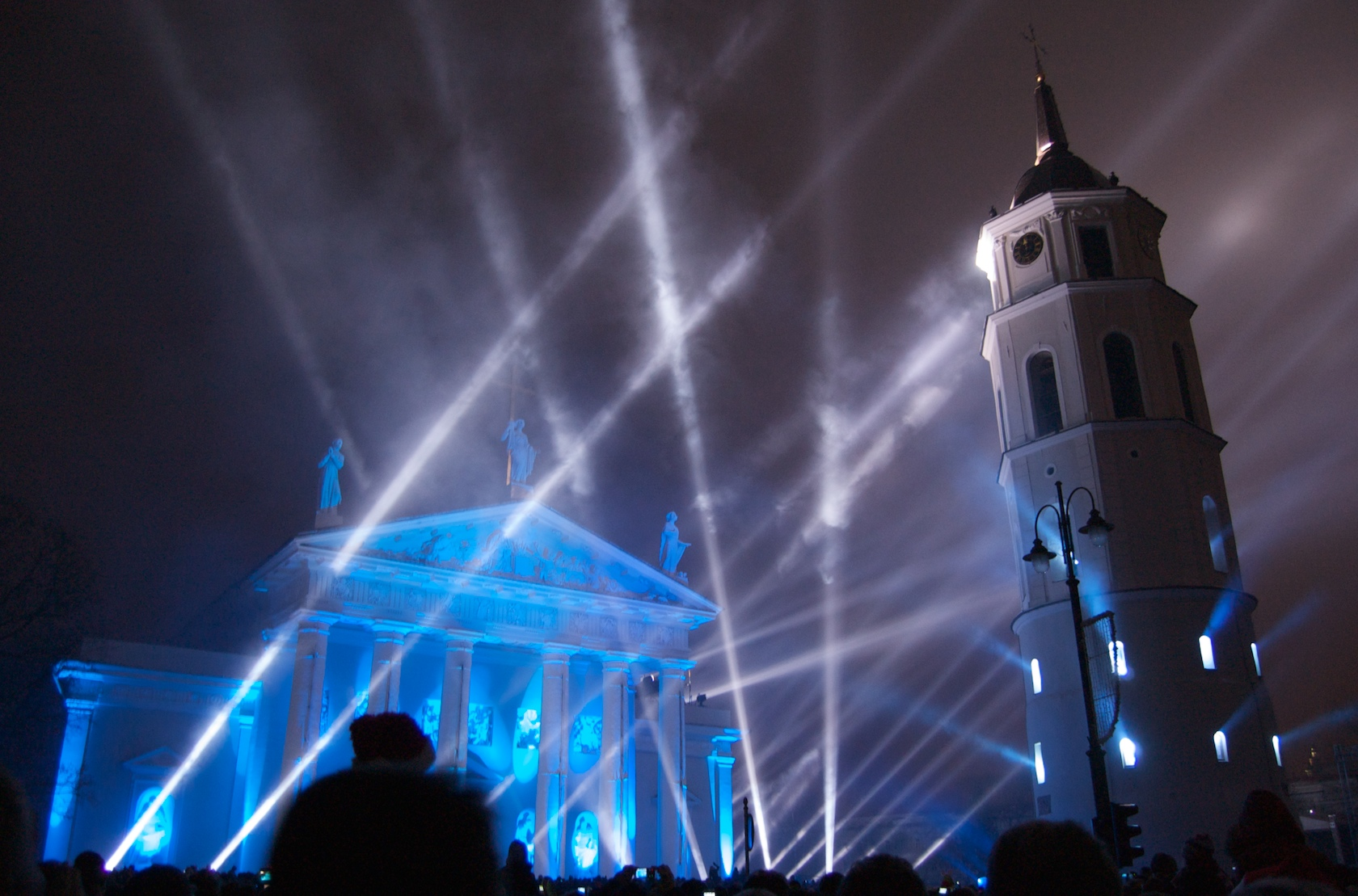 New Year's eve in Vilnius, Lithuania.